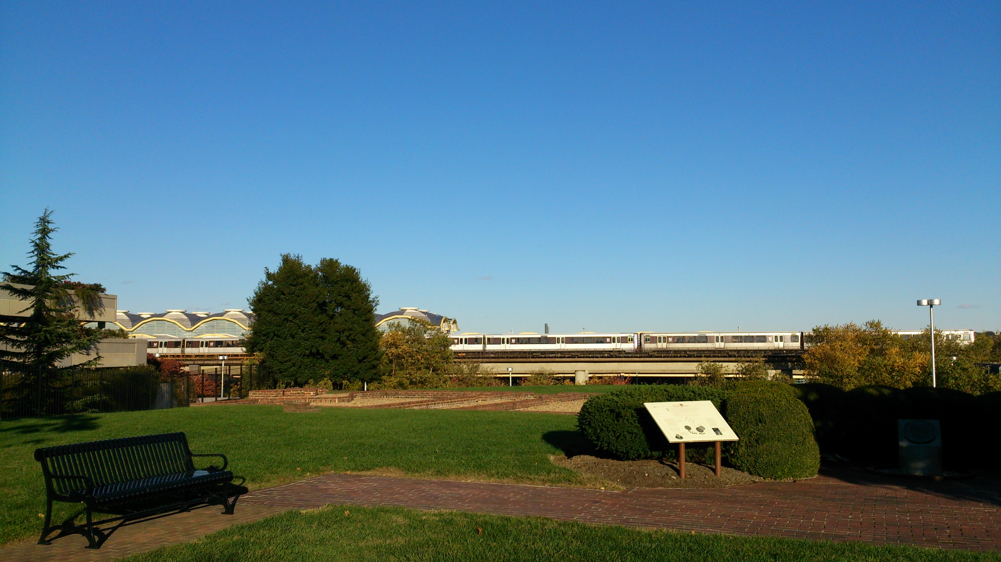 Historical marker and reconstructed foundation of Abingdon house on hill overlooking Ronald Reagan Washington National Airport, looking east